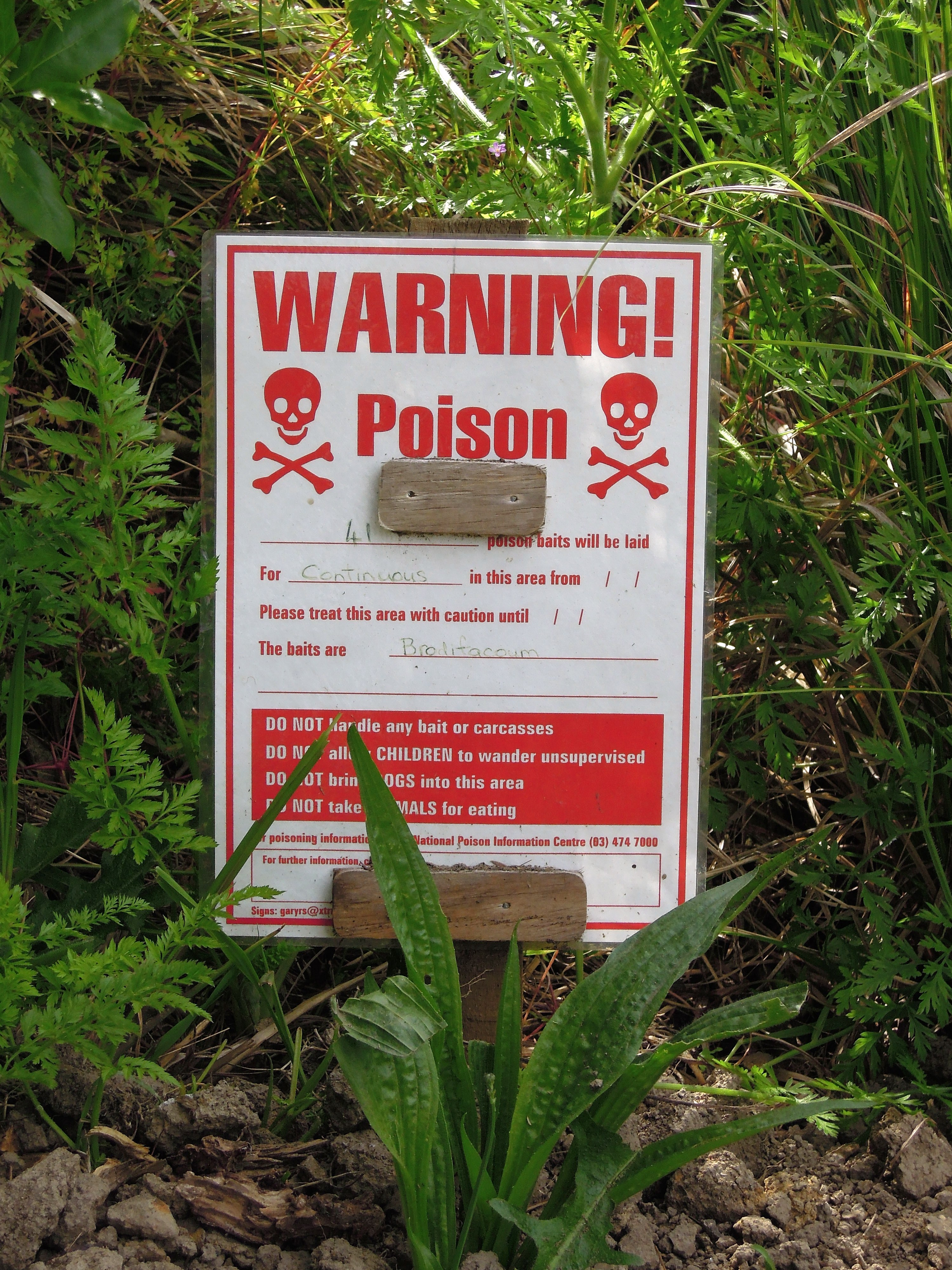 Notice to hikers of poison baits in New Zealand. Sign found on the walk from Oneroa to Matiatia wharf on Waiheke island. Waiheke is possum free, but not rat free, hence the use of Brodifacoum.